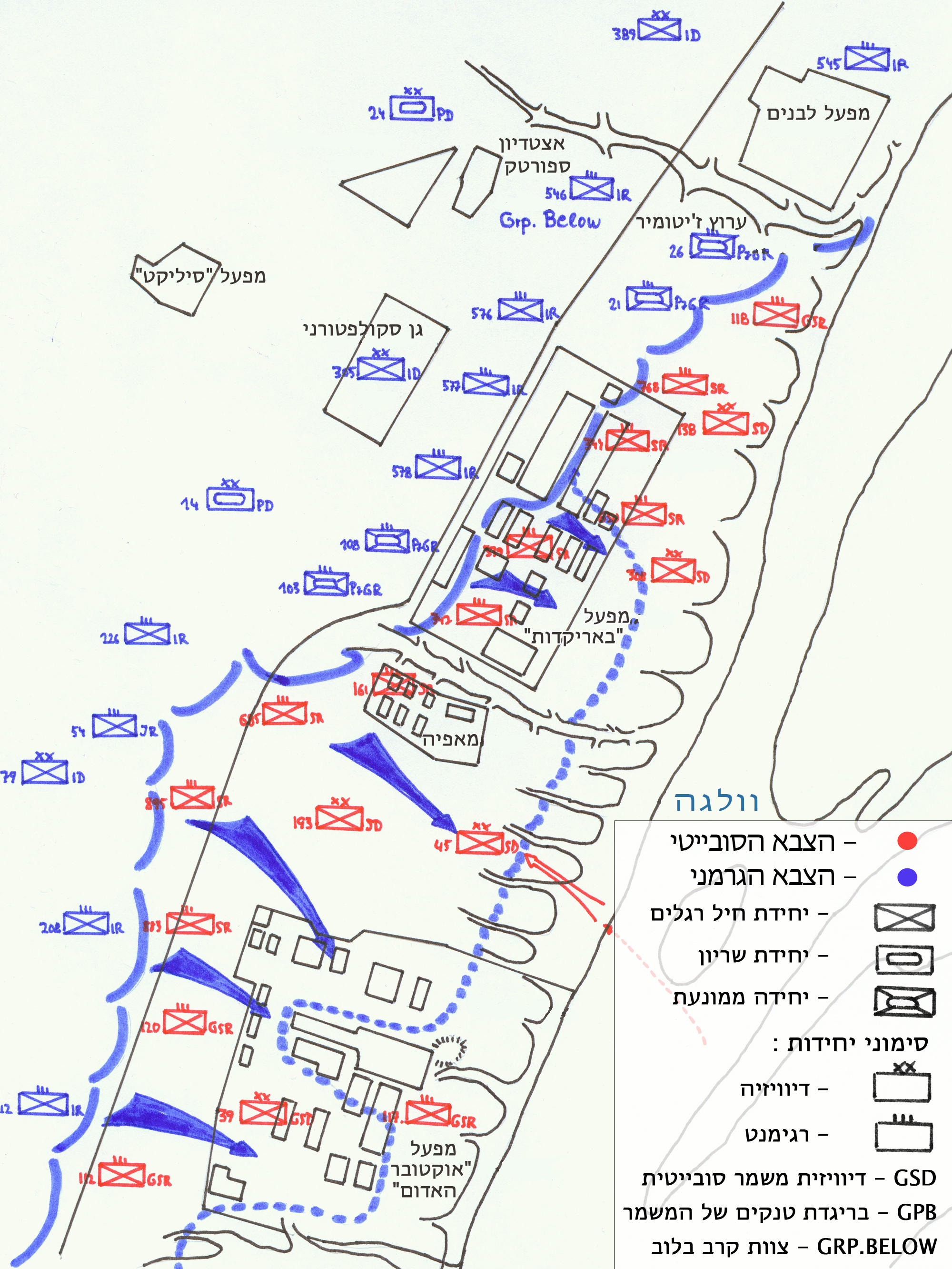 Stalingrad Stahlwerk Roter Oktober 23 -31 10 1942 he